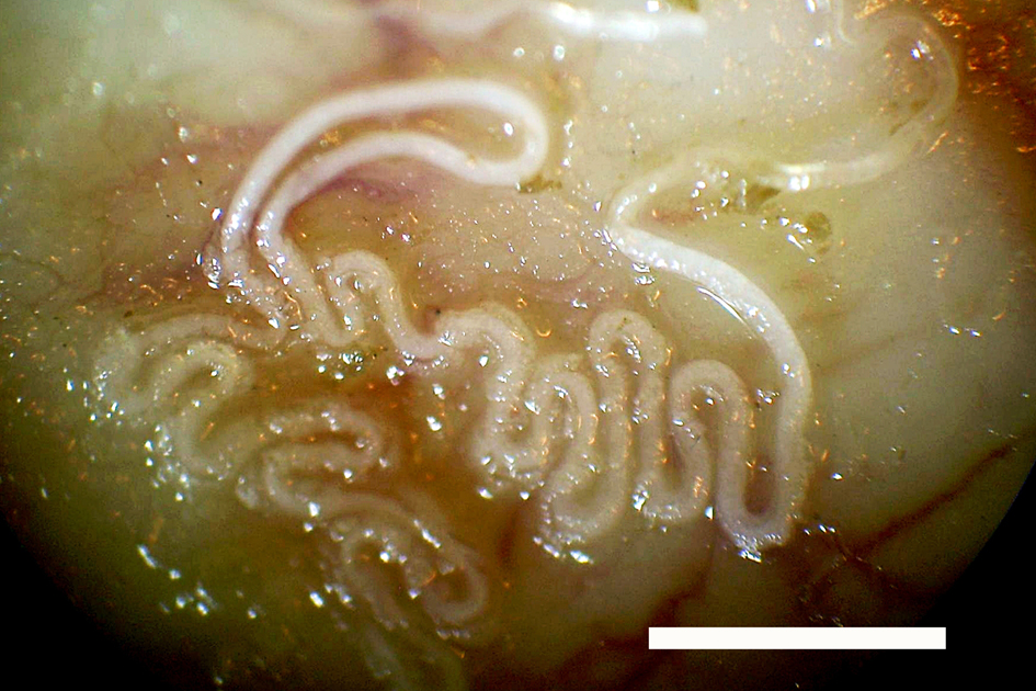 Adult female Eucoleus aerophilus on the mucosa of the opened trachea of a fox dissected after formalin fixation. More than half of the worm body is inside the tracheal mucosa with a zig-zag shape and the other part is free in the lumen. Scale bar – 1 mm.